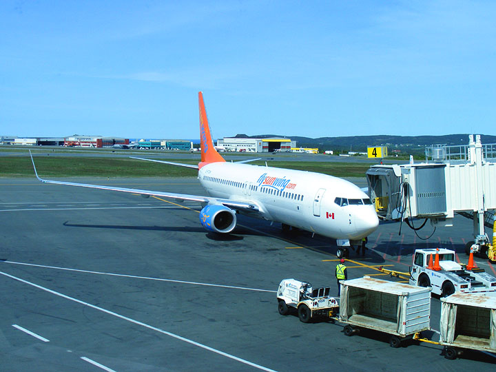 St. John's International Airport, NflL, Sunwing Airlines, [foto Paul B. Toman]